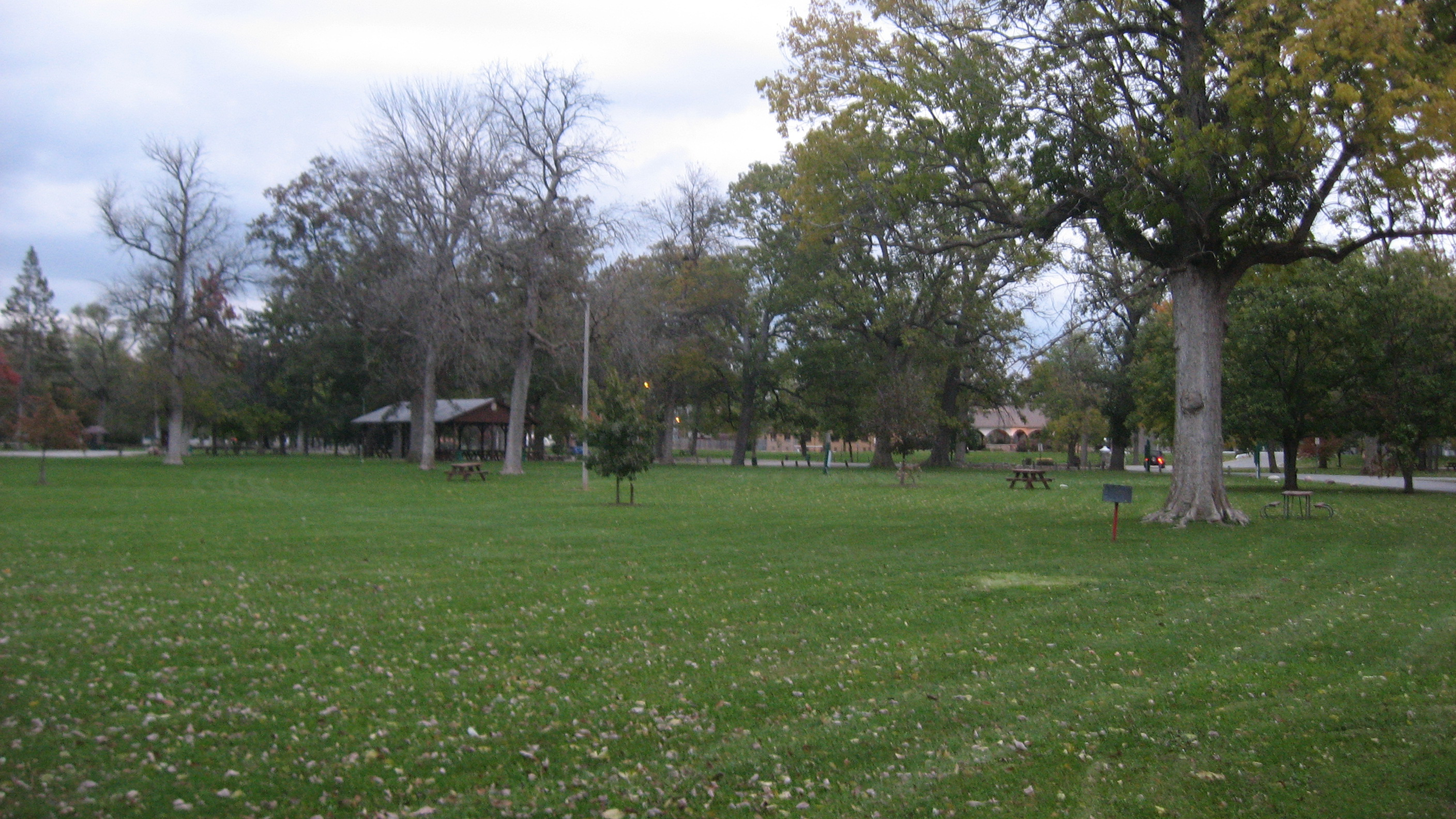 Looking northeast from the southwestern corner of Roberts Park, located along Park Road (State Road 1) in Connersville, Indiana, United States. The park is listed on the National Register of Historic Places as a historic district.